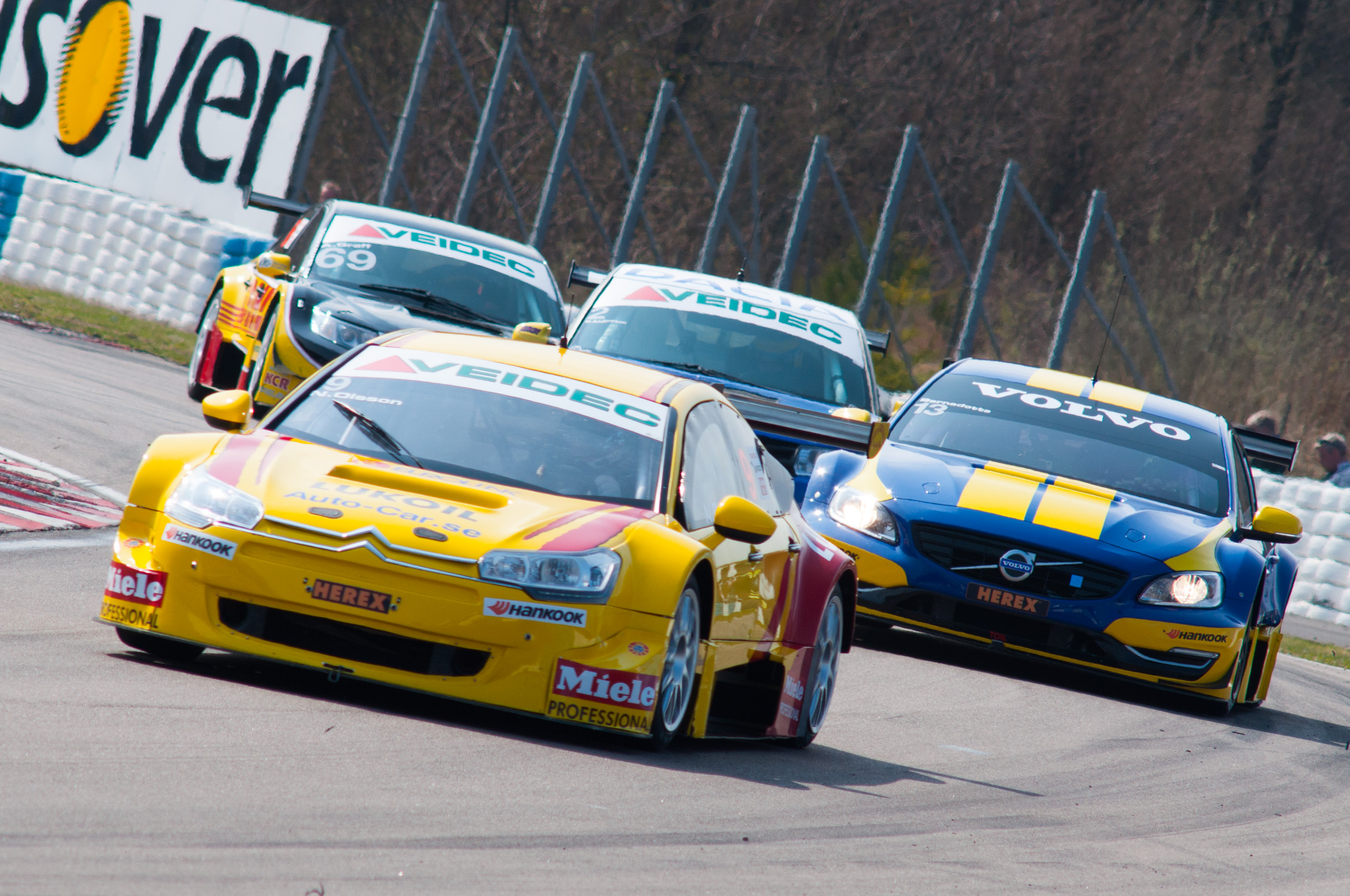 Niclas Olsson (9), Prins Carl Philip (13), Mattias Andersson (2) and Alexander Graff (69) on Ring Knutstorp in Scandinavian Touring Car Championship 2013